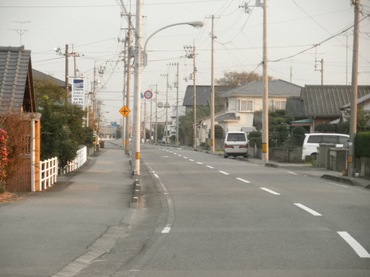 Wadajimatown 西浜手 Komatsushimacity Tokushimapref Tokushimaprefectural road 218 Wadajima Akaishi Line